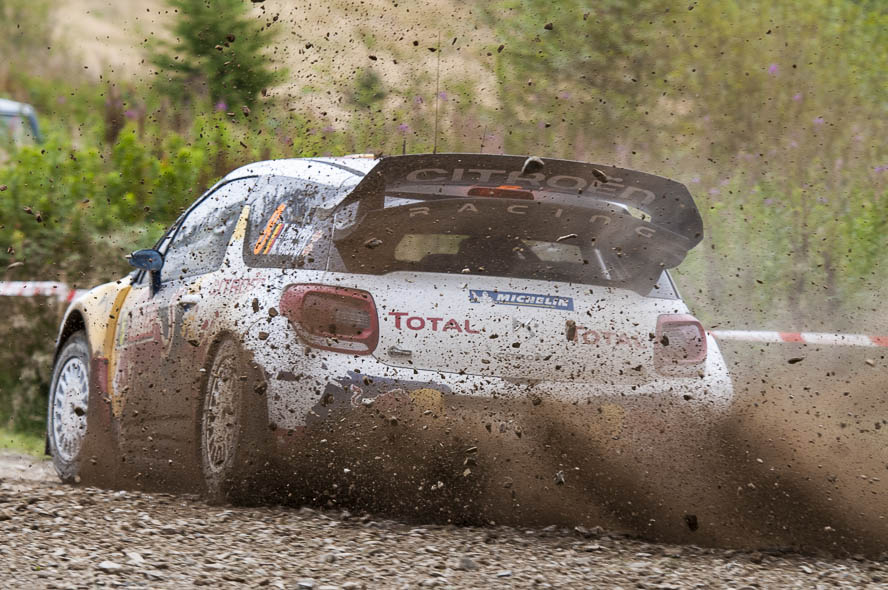 Wales Rally Great Britain 2012 Citroen DS3 WRC,Citroen Junior WRT,Citroen Junior World Rally Team,Crychan 2,Motorsport,Nicolas Gilsoul,Rally,Rallye,SS10,Thierry Neuville,WP10,WRC,Wales Rally GB